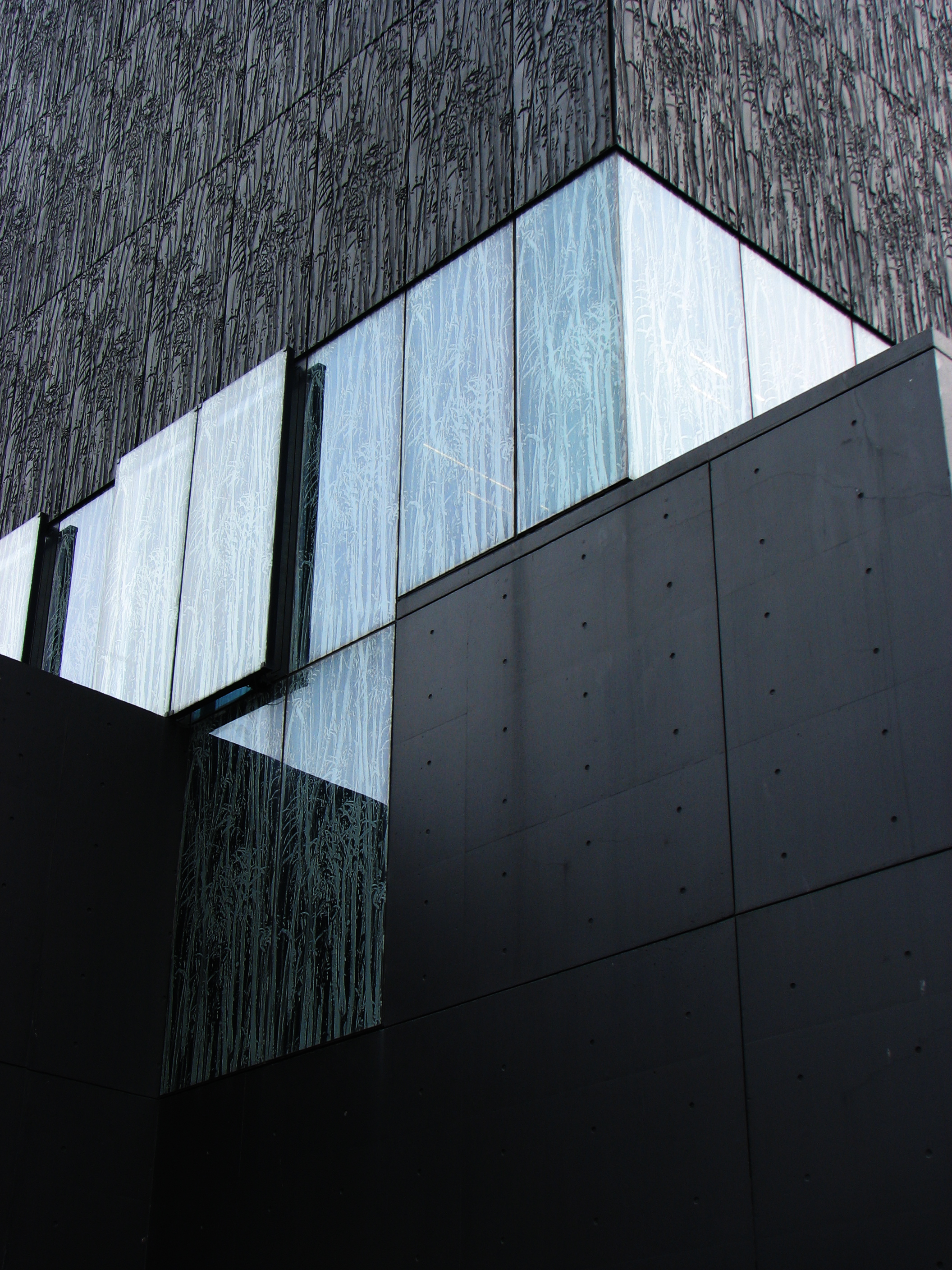 UBU in Utrecht, Holland